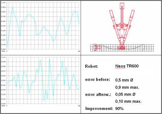 Content: Calibration result for Tricept robot Author: L. Beyer (user)